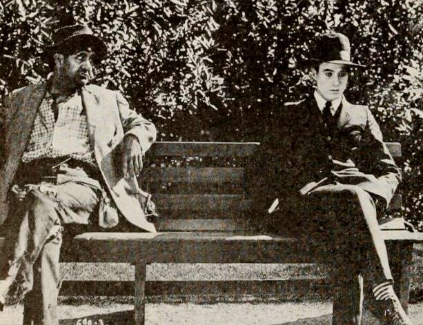 Still from the American comedy drama film The Golden Fleece (1918) with Joseph Bennett (1894 – 1931) (at right), on page 34 of the August 17, 1918 Exhibitors Herald.